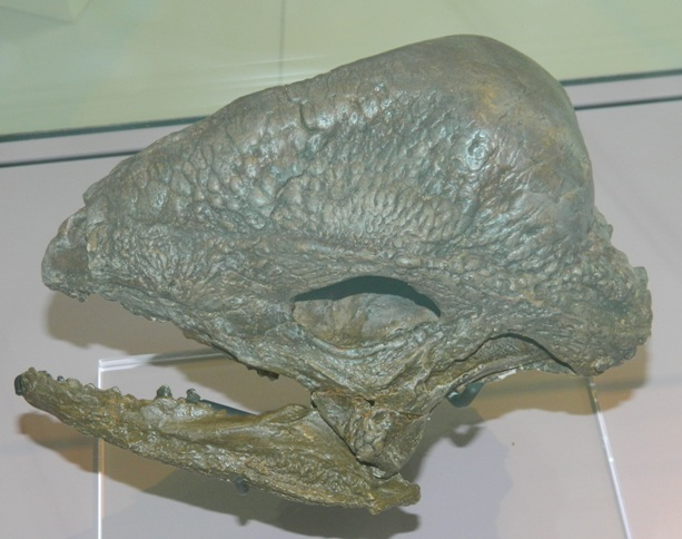 This is the skull of S. validum.